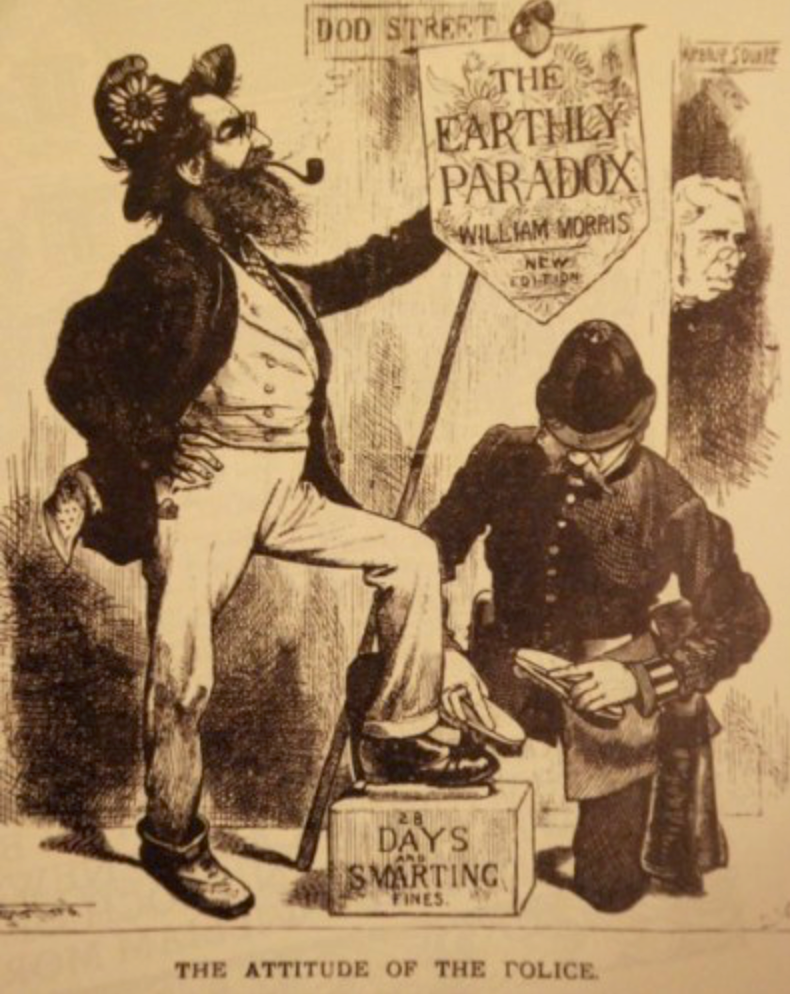 William Morris is shown metaphorically having his boots blacked by the law in Dod Street, Limehouse. ( Unlike plebeian demonstrators, the law treated him lightly.)